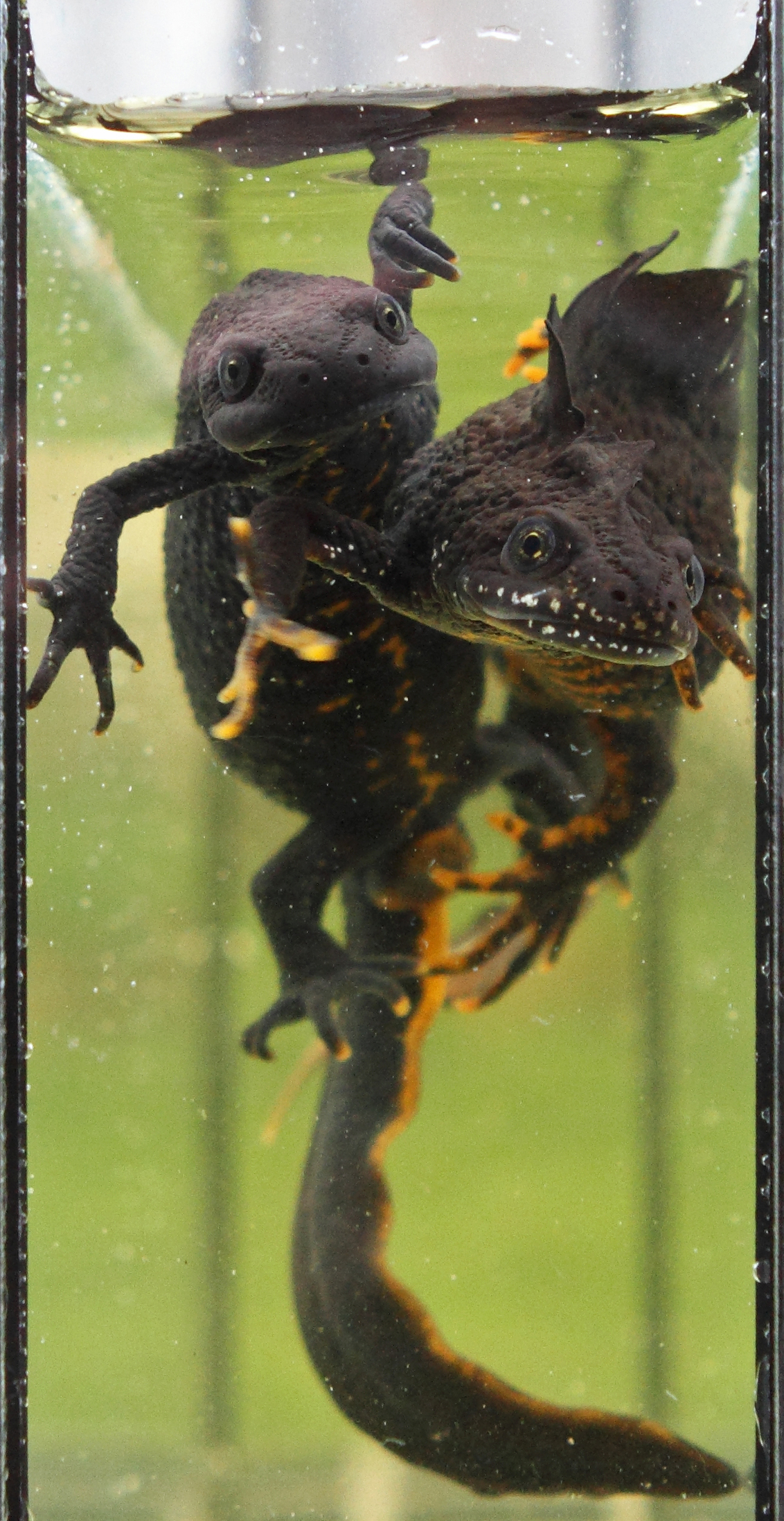 Great crested newt (Triturus cristatus) male (right) and female (left) in a cuvet during an amphibian survey in Norway.